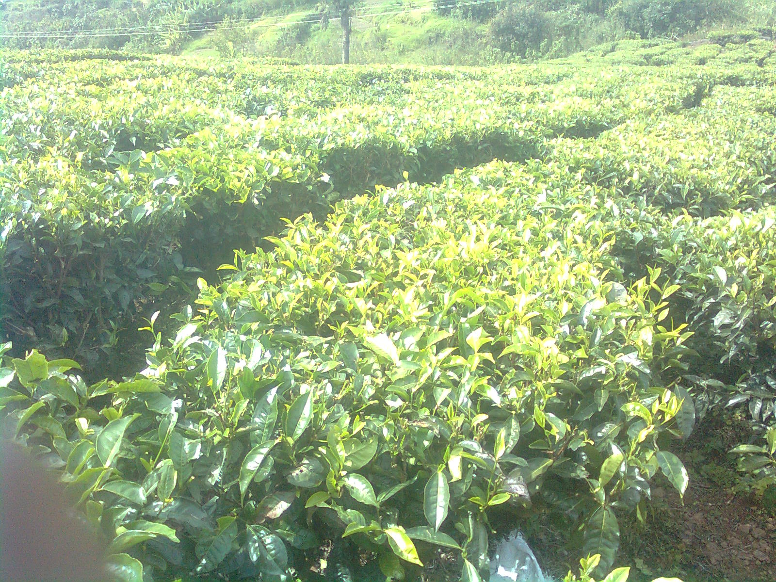 This is a tea sapling Image, Location of Gundumalai in Suryanelli, near by Munnar.